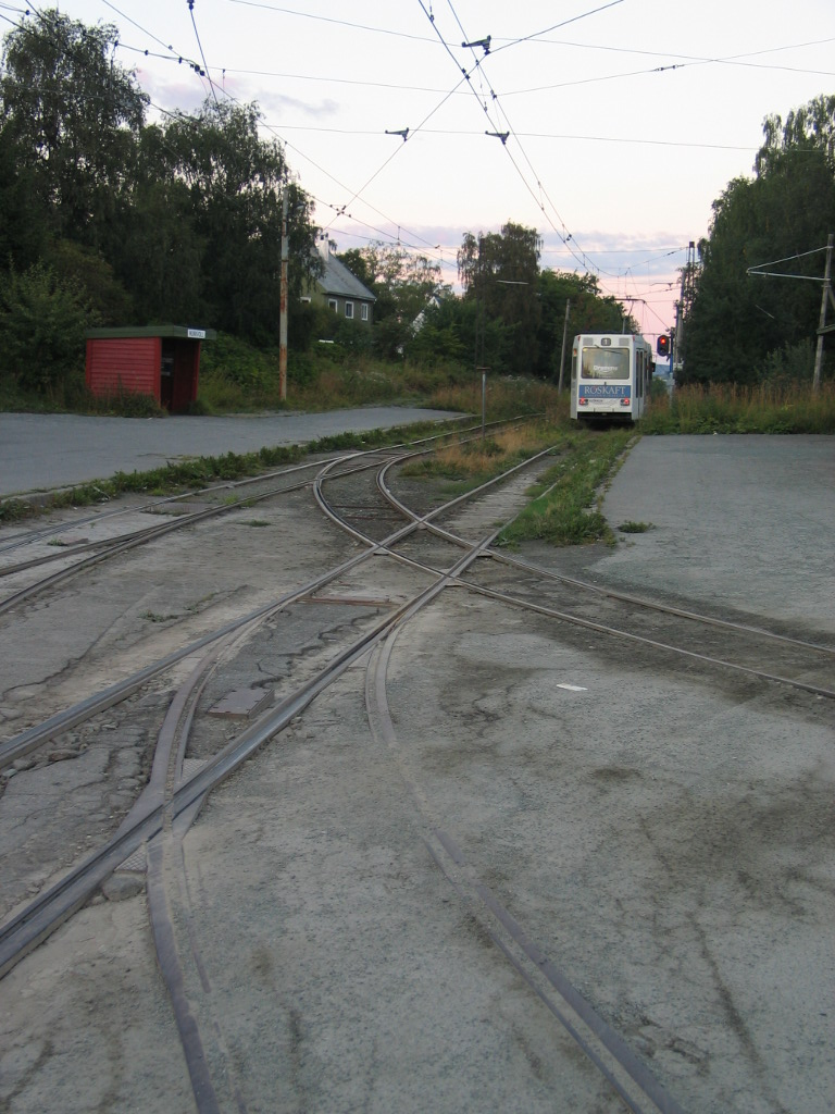 Tram in Trondheim, view of the Munkvoll station